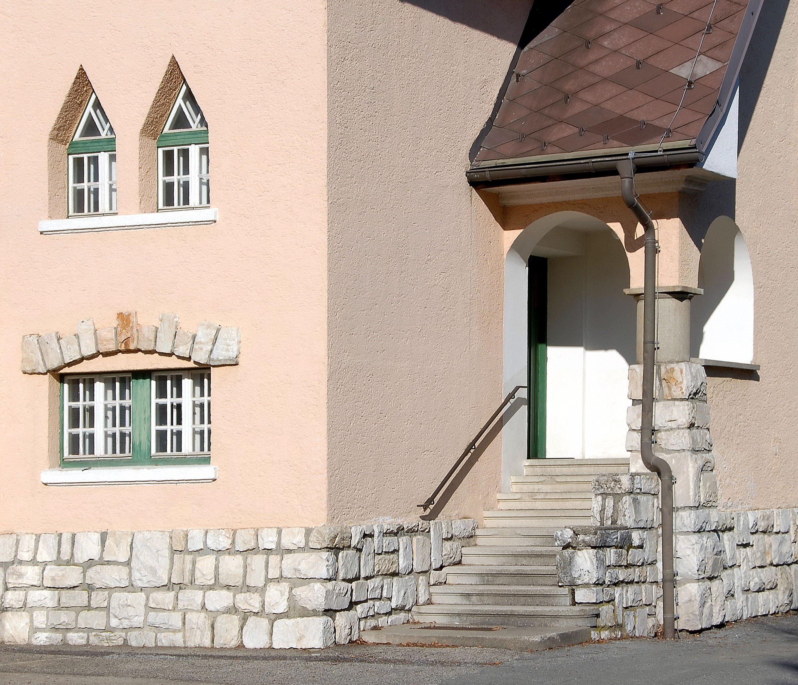 Entrance stairs at the firehouse`s portal, designed by architect Franz Baumgartner in 1925, fire station detail of the “Wörthersee Architecture” in Bäckerteich Straße #1, Velden, district Villach Land, Carinthia, Austria